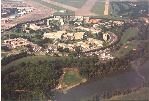 The focus of the Air Force's vital professional education mission is Air University's academic circle, home of the Air War College; Air Command and Staff College; Squadron Officer School; the Eaker College for Professional Development; the College for Aerospace Doctrine, Research, and Education; and the Air University Library.